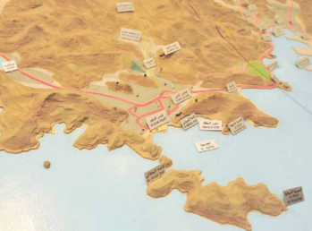 تضاريس مسقط الشاهقة